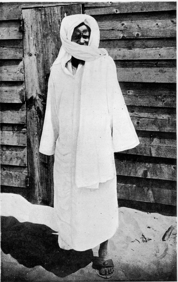 This is the single remaining photo of Ahmadu Bamba and was most likely photographed before 1923. Apparently, no one owns a copyright and it has come down to us through being reproduced in countless photo labs and by photocopying.